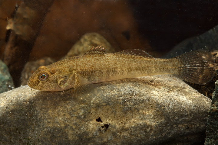 Padogobius bonelli collected in northern Italy (Padus drainage). Carefully released after photo. Photo by Alessandra and Rocco Marciano.